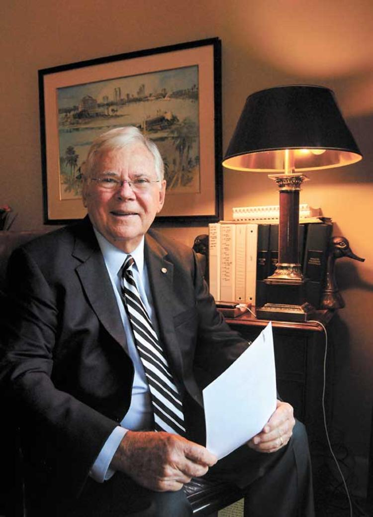 Photo of Mayor Bill Frederick